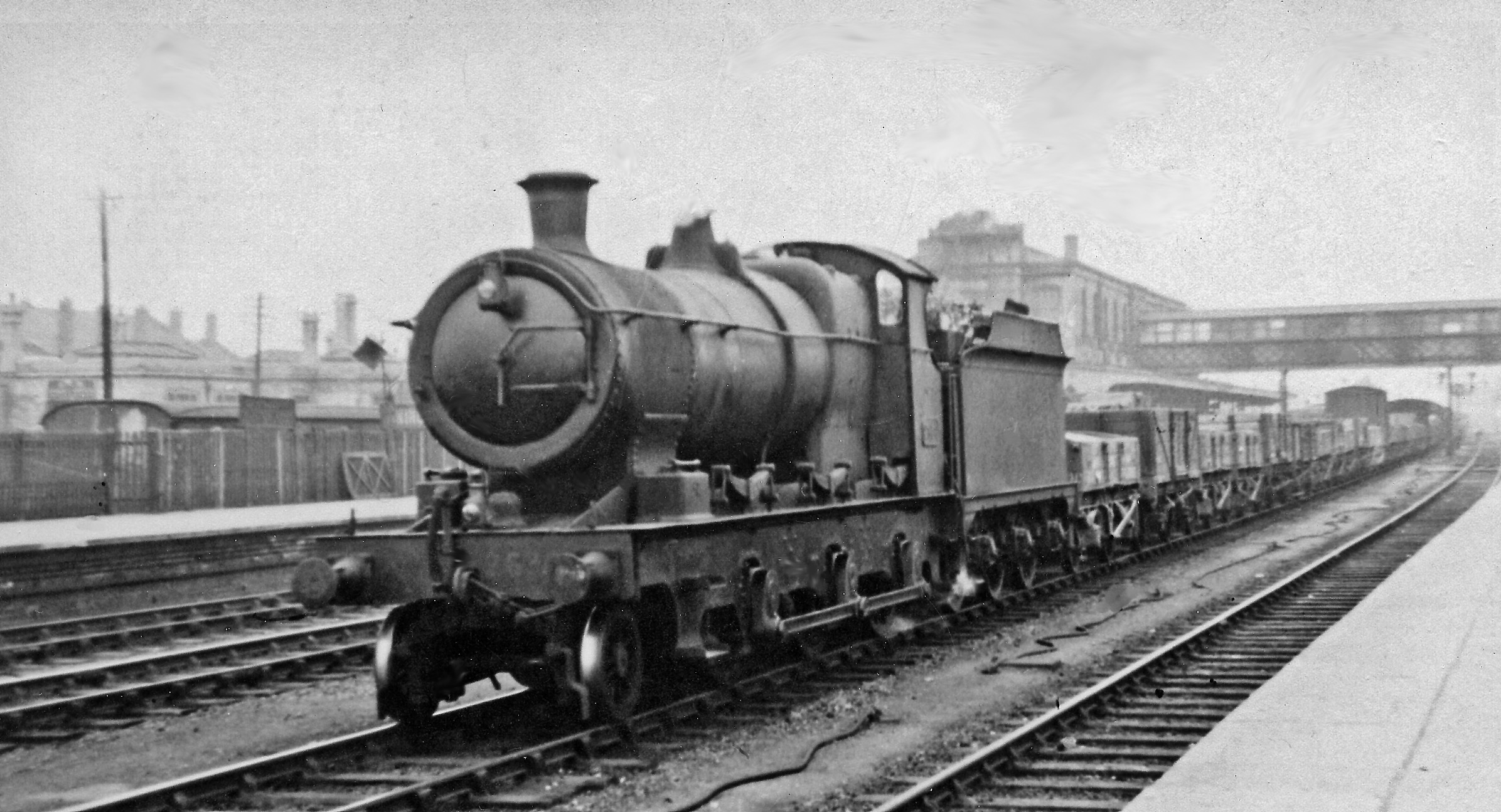 Swindon Station, with an ancient 'Aberdare' class 2-6-0 passing. View westward, towards Bristol, South Wales, Gloucester etc.; ex-GW Paddington - Reading - Swindon and the West main lines. Dean outside-frame 'Aberdare' 2-6-0 No. 2636 (built 6/01, withdrawn 7/46 - three months after this photograph) is on the Up Through line with a Class H freight, no doubt from South Wales. This is how Swindon station was until rebuilt in the 1970s.